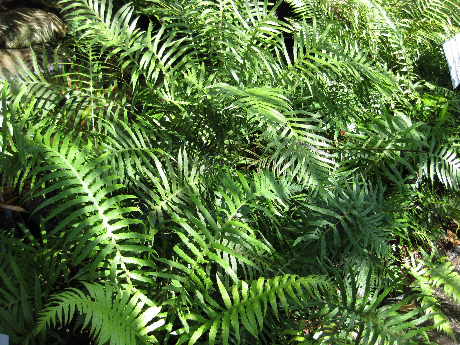 Photographed at the Royal Botanic Gardens Sydney (Australia) in December